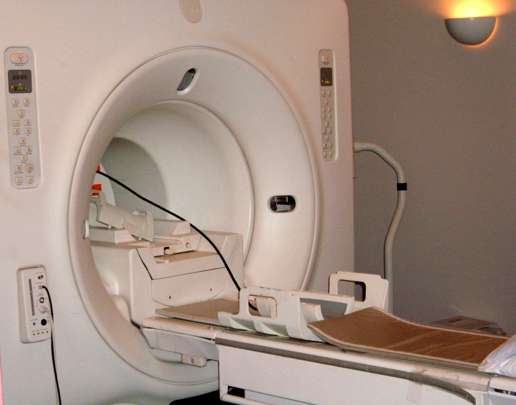 The opening in a GE Signa MRI machine